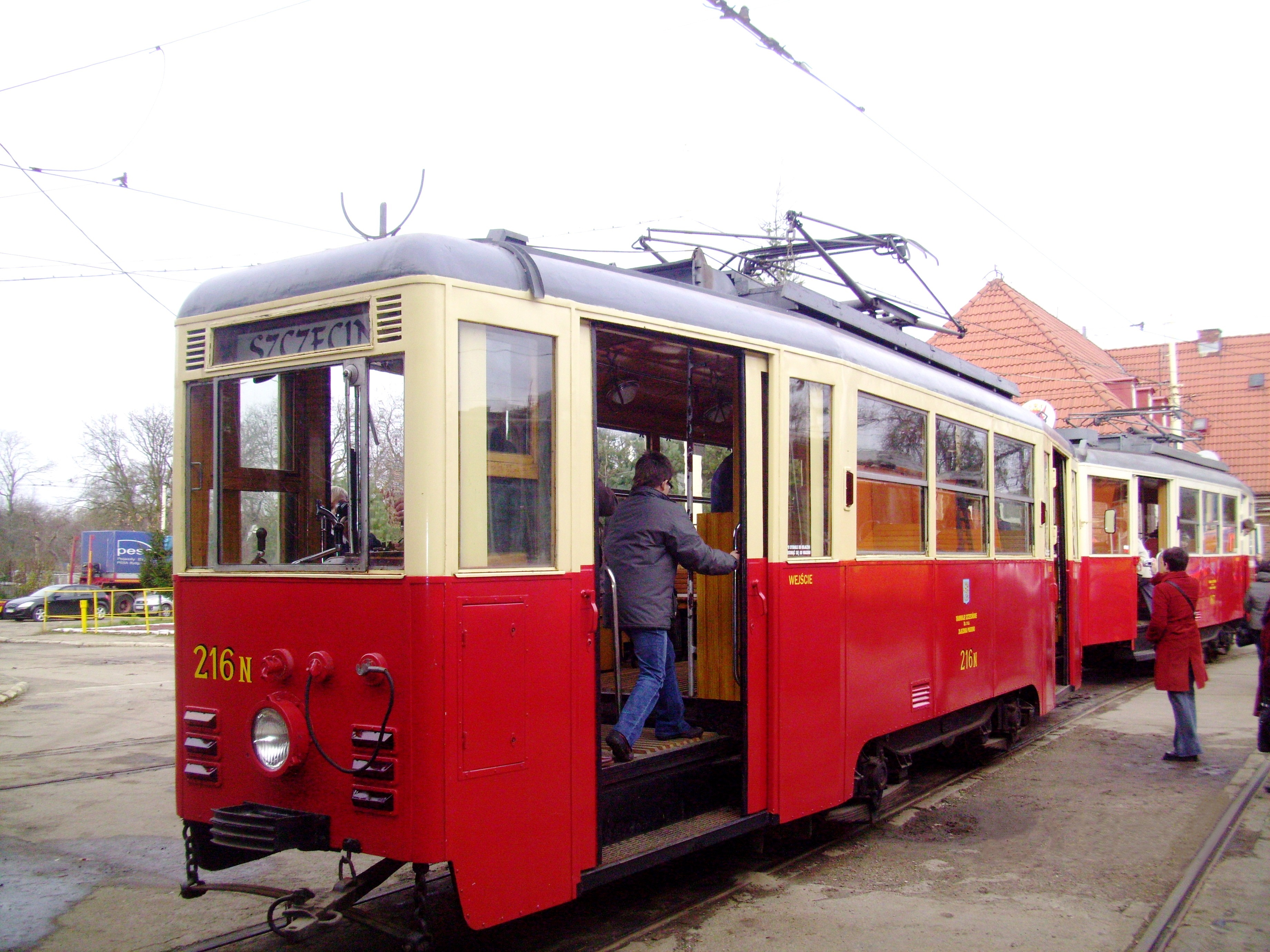 Tram Konstal 4N in Szczecin, Poland.